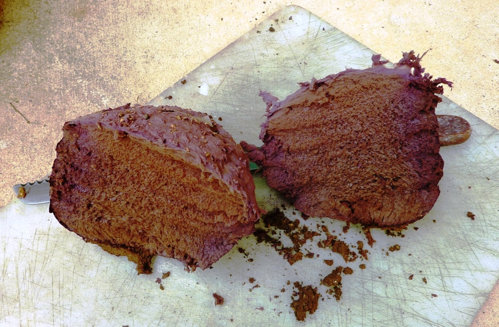 This photo was taken after we cut the fungus open and before shipping it to the Queensland Herbarium for identification.